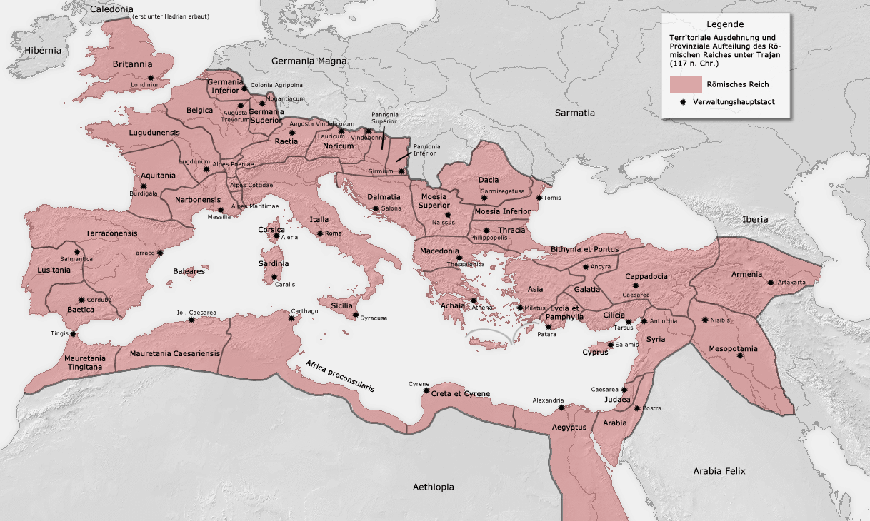 Roman provinces (German)